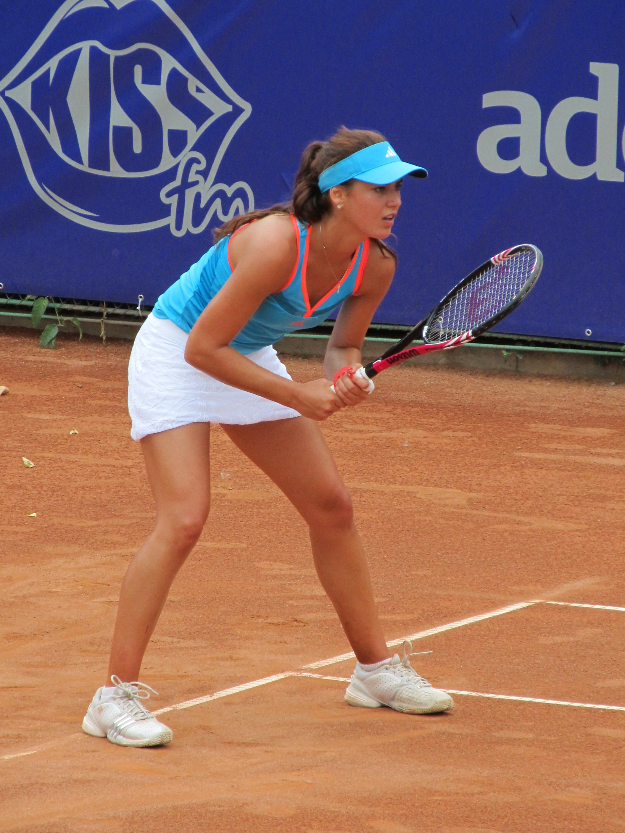 Sorana Cîrstea receiving a serve from Mădălina Gojnea at the 2011 BCR Open Romania Ladies